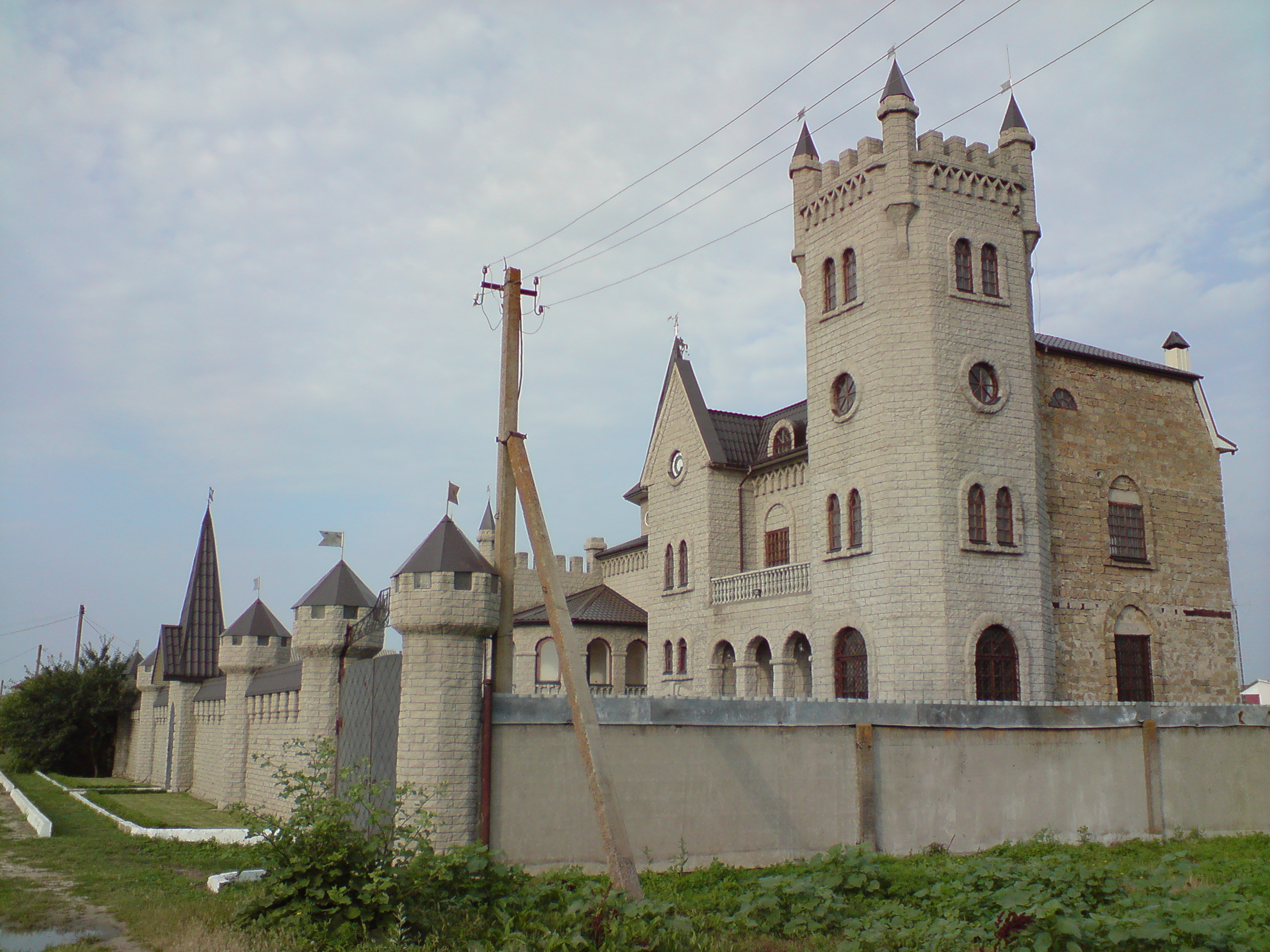 Castle in Zaliznyi Port, Kherson Oblast, Ukraine